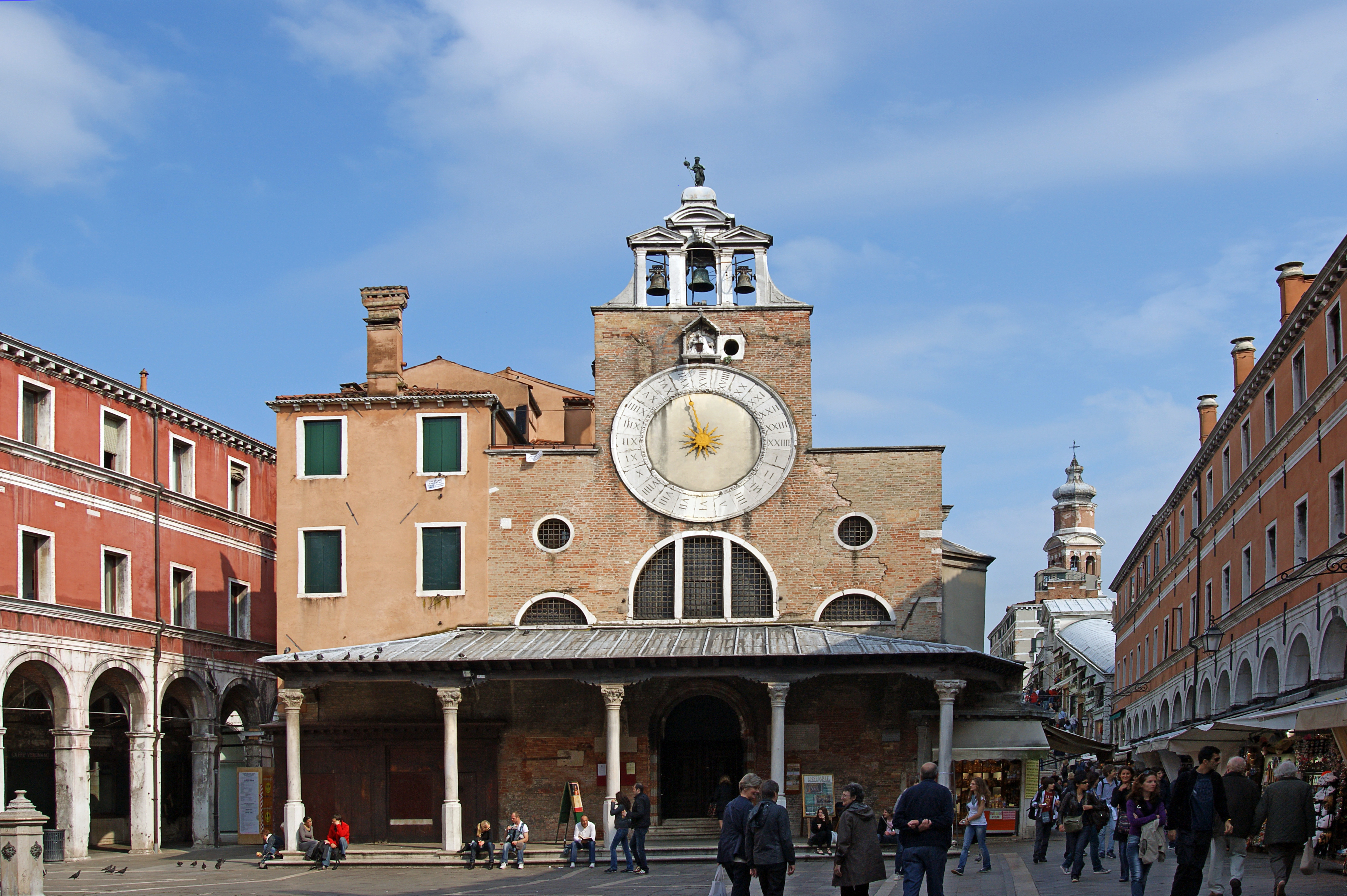 Church of San Giacomo di Rialto in Venice - Facade